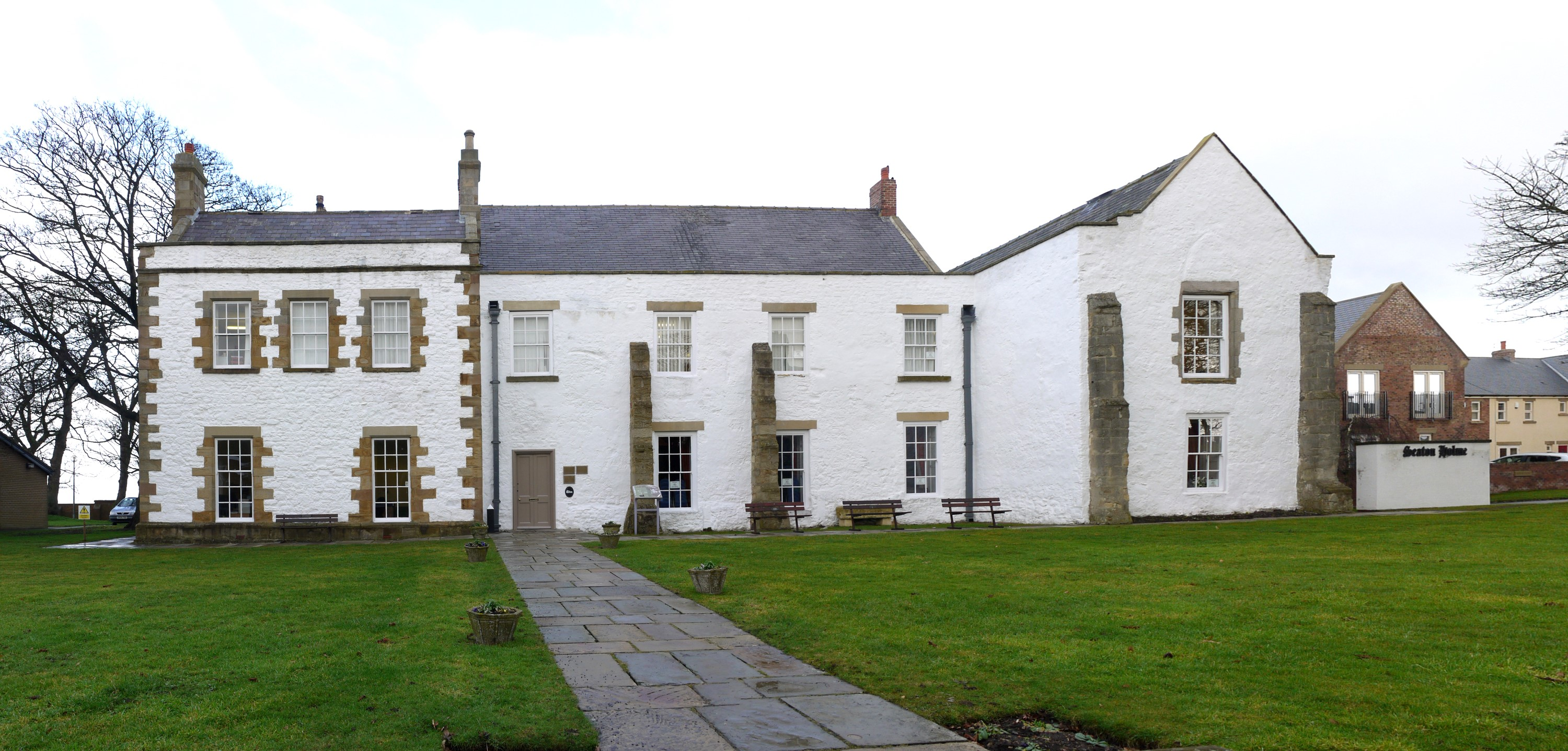 Seaton Holme, Easington, County Durham, England.A medieval manor house dating from 1249, said to be one of the oldest domestic buildings in England. It was built on even older remains of Anglo-Saxon timber-framed buildings of which evidence was found from archaeological excavation. Together with the Church of St Mary the Virgin, just behind on the opposite side of the road, these were the two principle buildings of medieval Easington. It later became the Rectory. After many different uses and a period of disrepair, the building was bought by Easington Village Parish Council. and following extensive renovation work, it was officially opened by HRH the Duke of Gloucester in 1992 There is an earlier photo here 322837